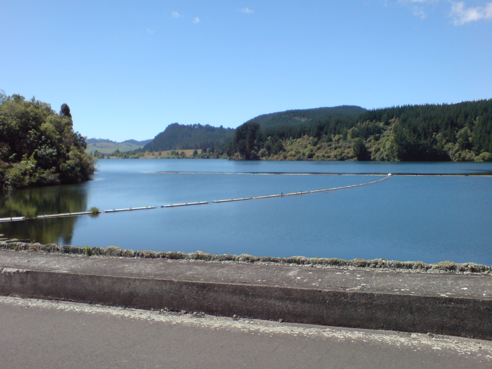 Lake Ohakuri, created by the Ohakuri Dam, Waikato Region, New Zealand. Photographed looking roughly south from the road along the crown of the earth dam part. The floating devices in the foreground are assumed to be nets/barriers against debris coming close to the dam / the power plant intakes.